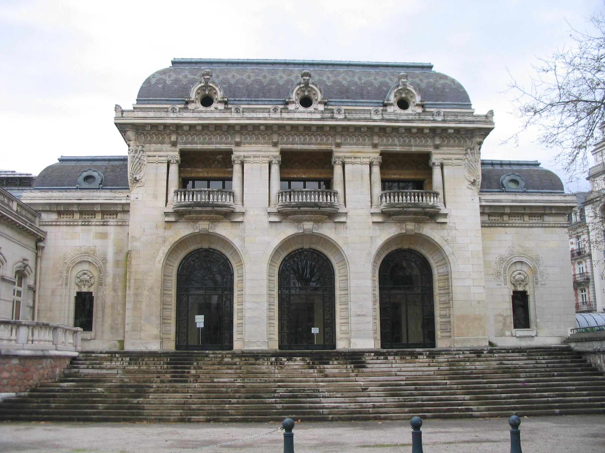 North facade of Vichy theatre by architect Charles Le Coeur, built in 1901.